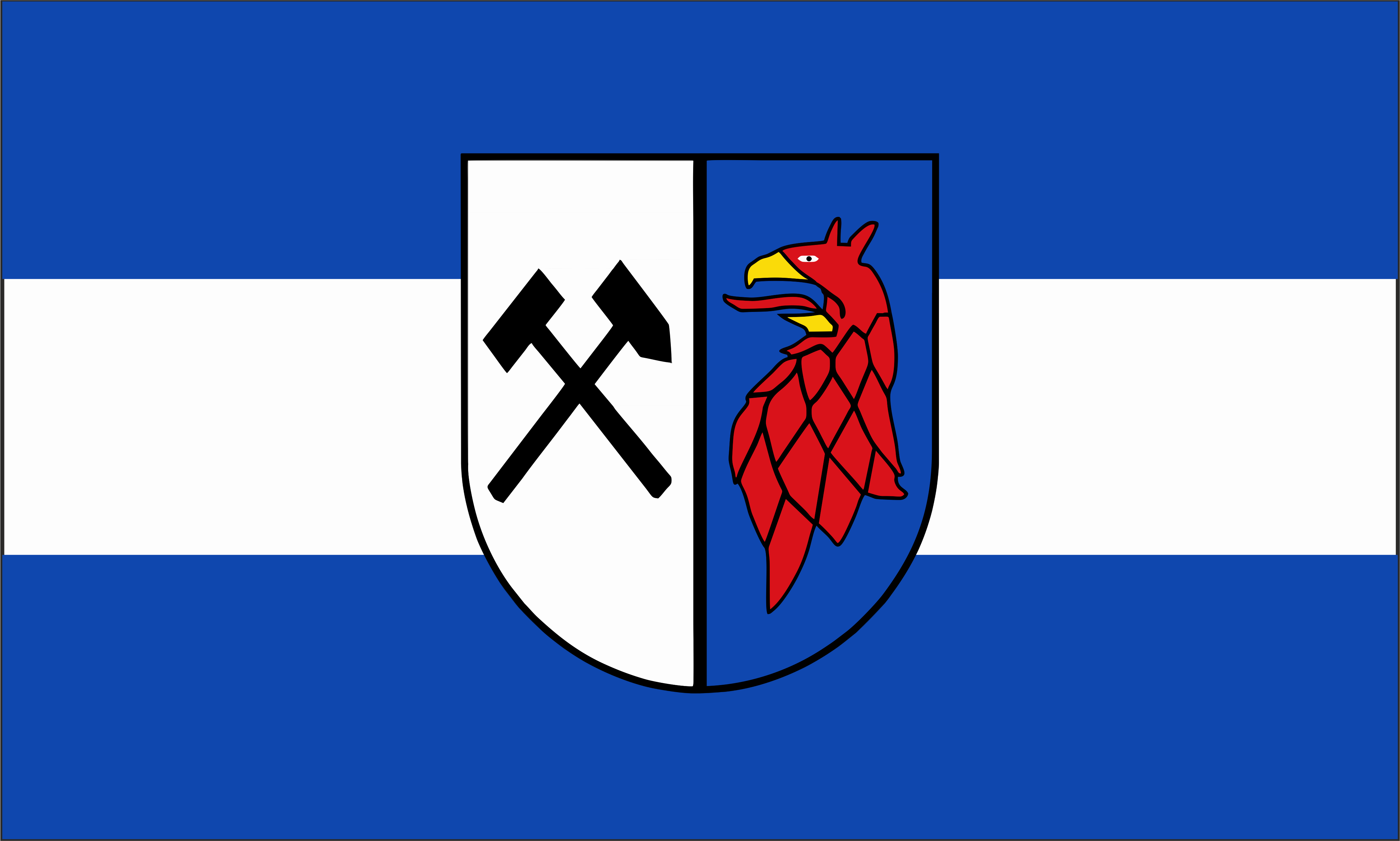 Flag of Torgelow